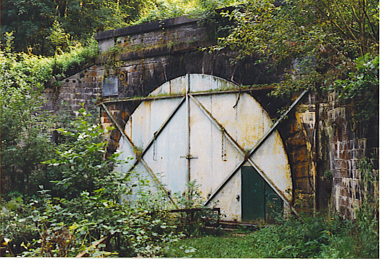 nord entrance of the tunnel of Godarville